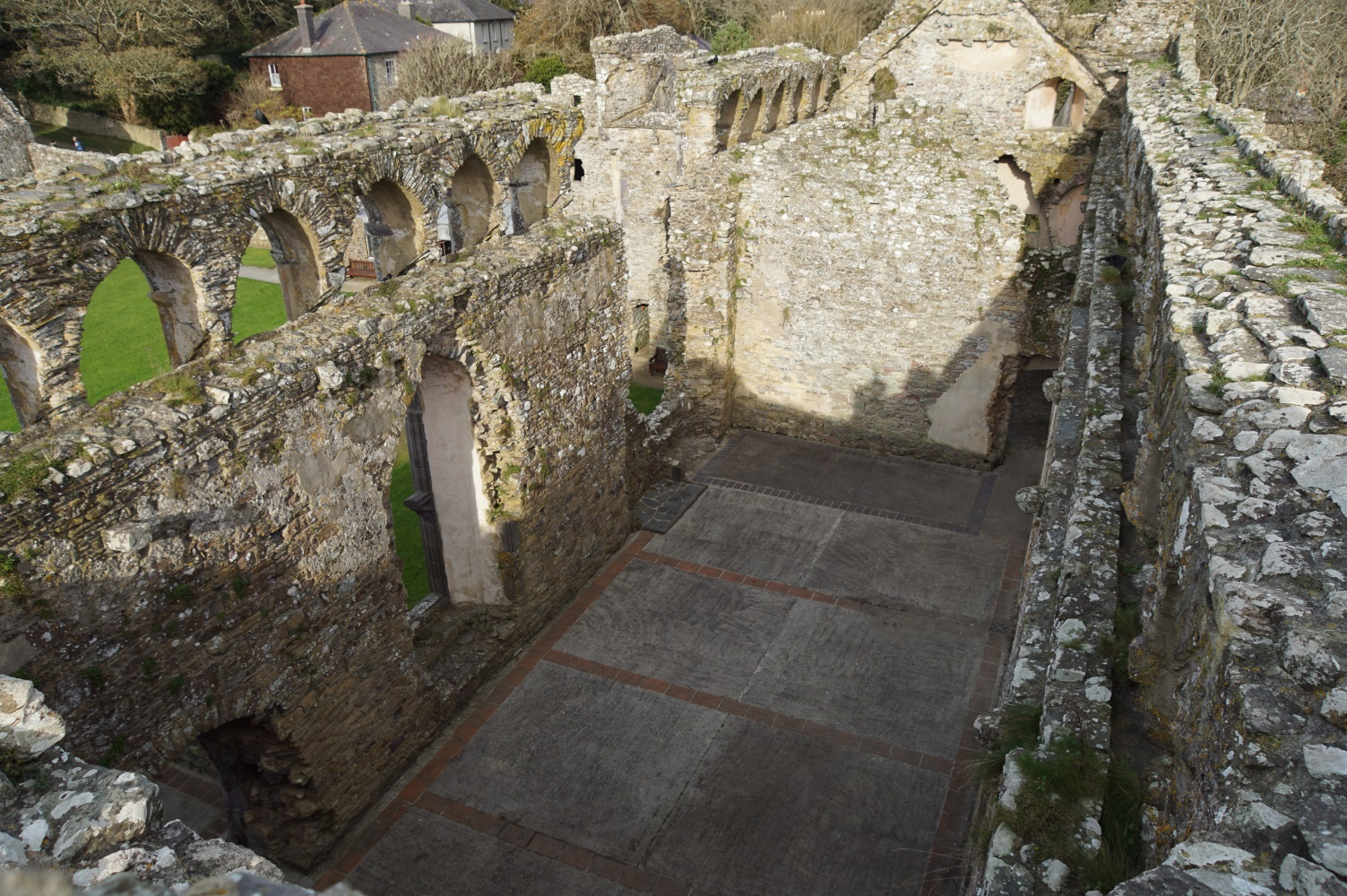 St. Davids Bishop's Palace, St. Davids, Wales, United Kingdom. Bishop's Hall.